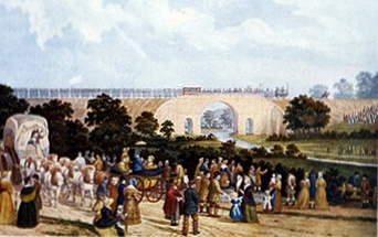 detail crowds are watching the inaugural train cross the Skerne Bridge in Darlington.